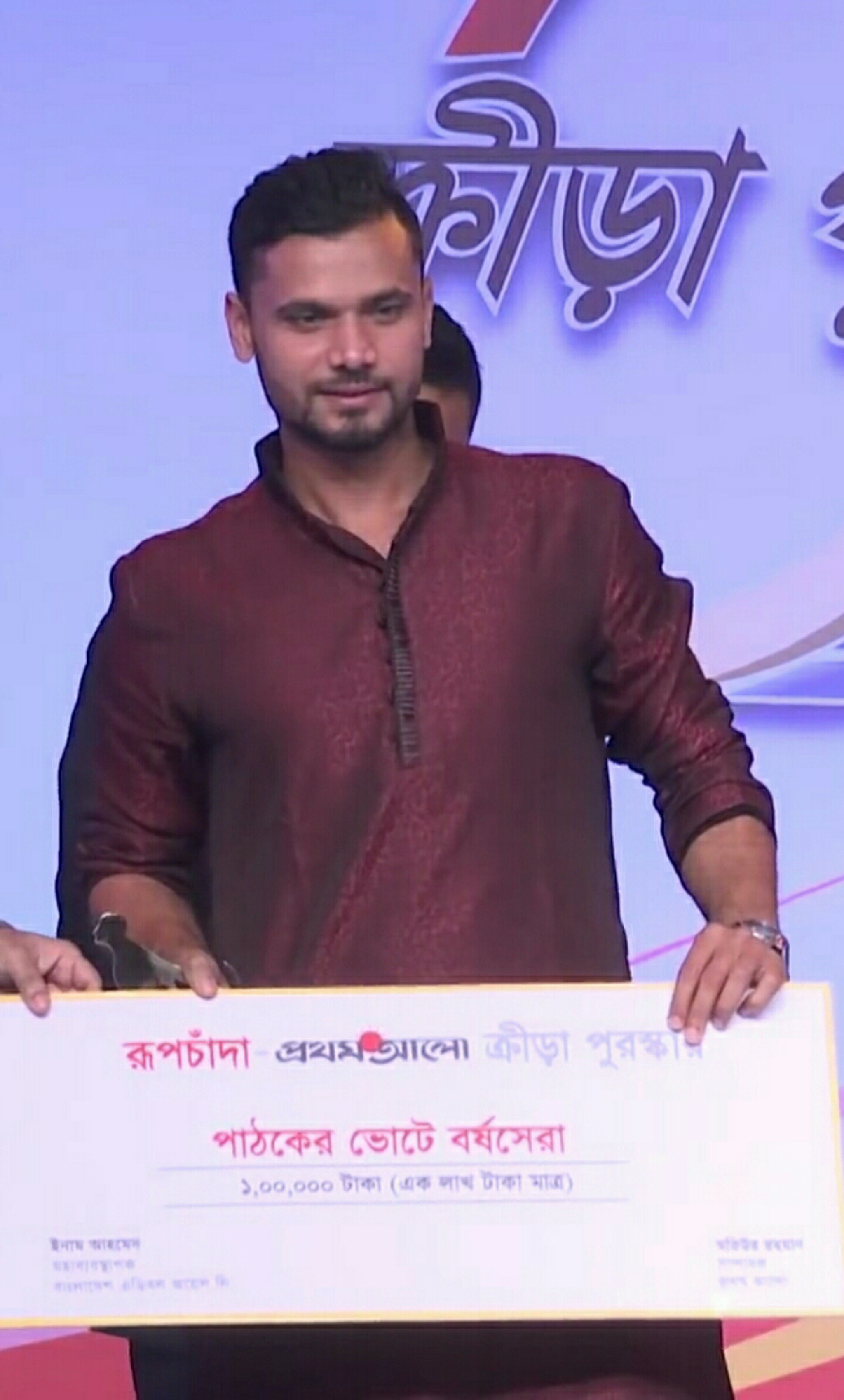 Mashrafe Mortaza received Prothom Alo “Peoples Choice award of the year in 2018